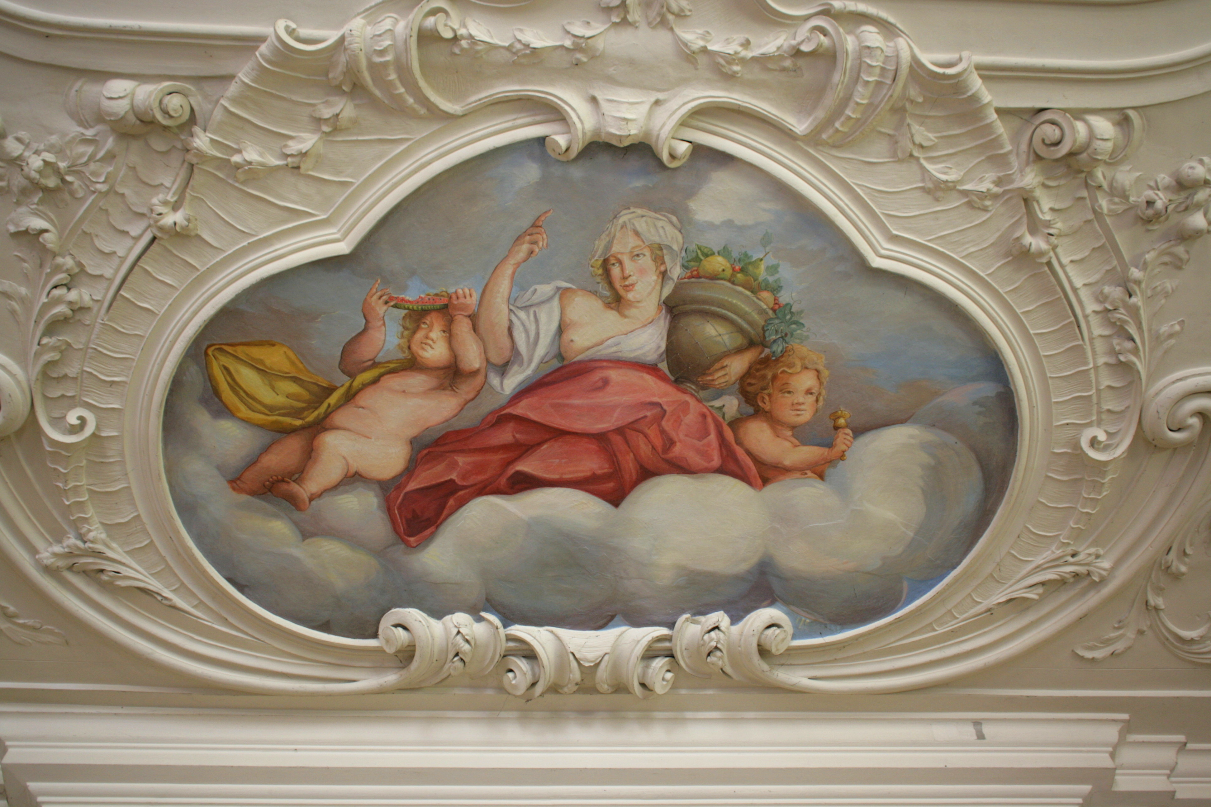 Painting from about 1650